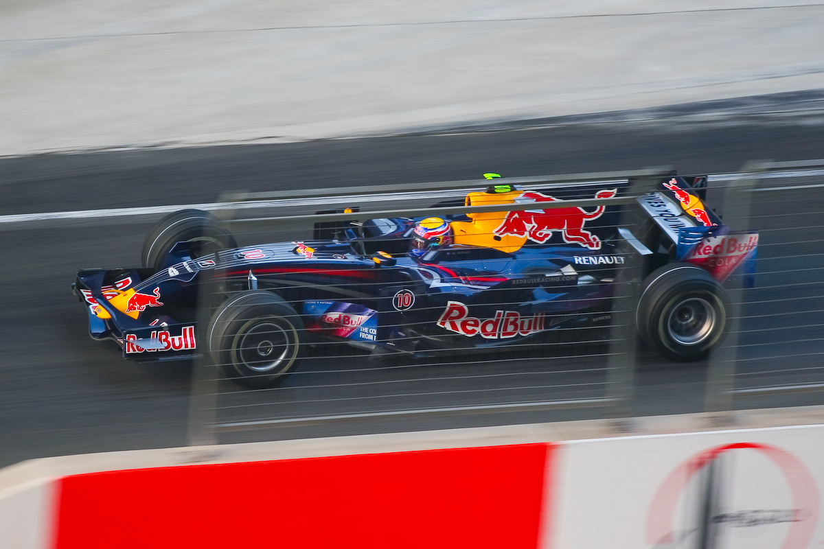 Mark Webber driving for Red Bull Racing at the 2008 Chinese Grand Prix.